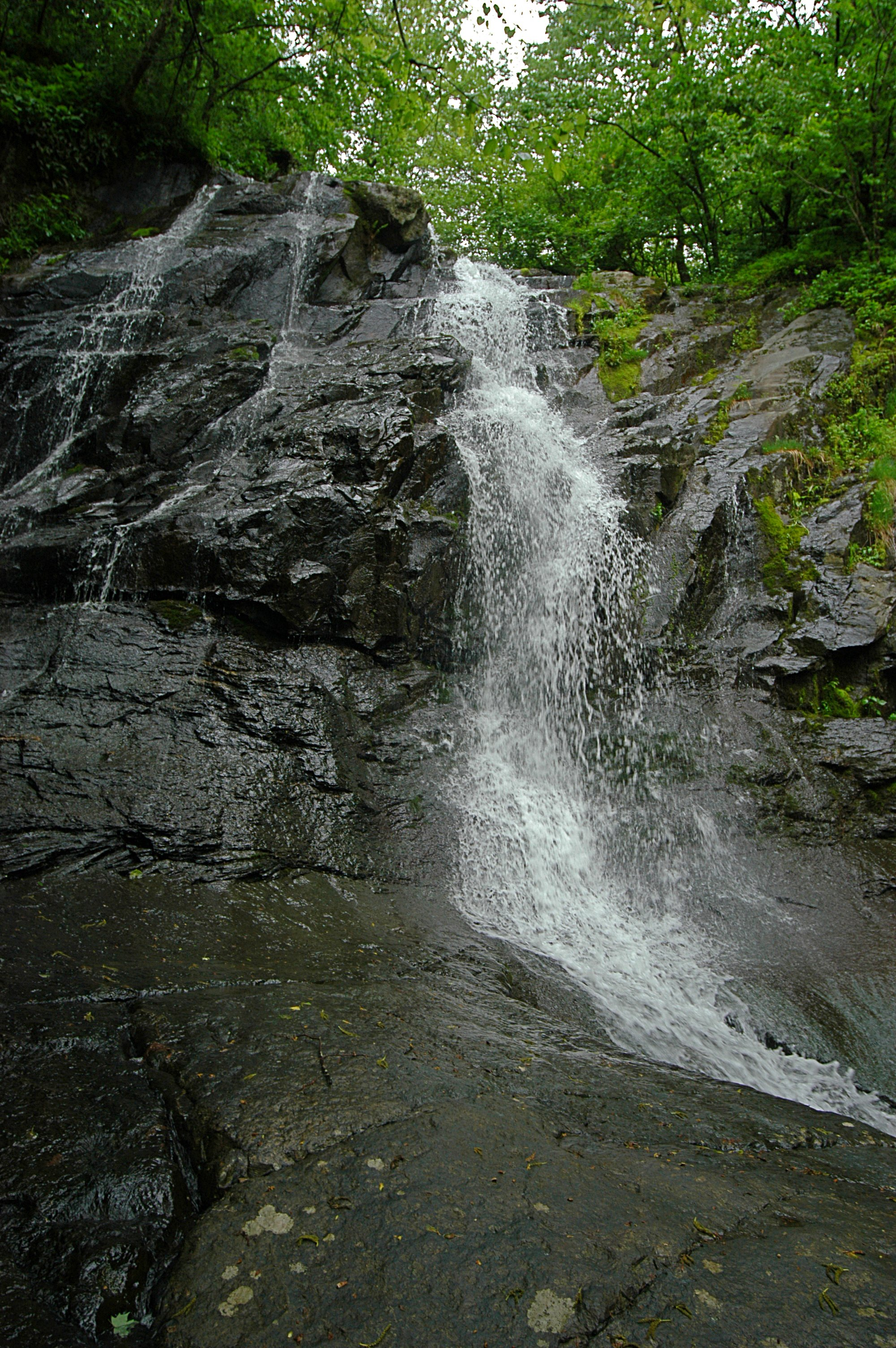 Jones Run waterfall in Shenandoah National Park, VA